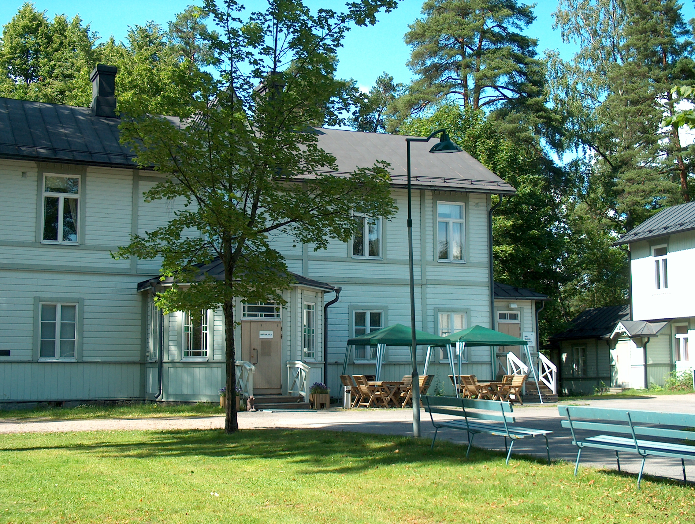 Holiday resort Onnela by Tuusula Lake. Finnish poet Eino Leino lived here in 1923–24.